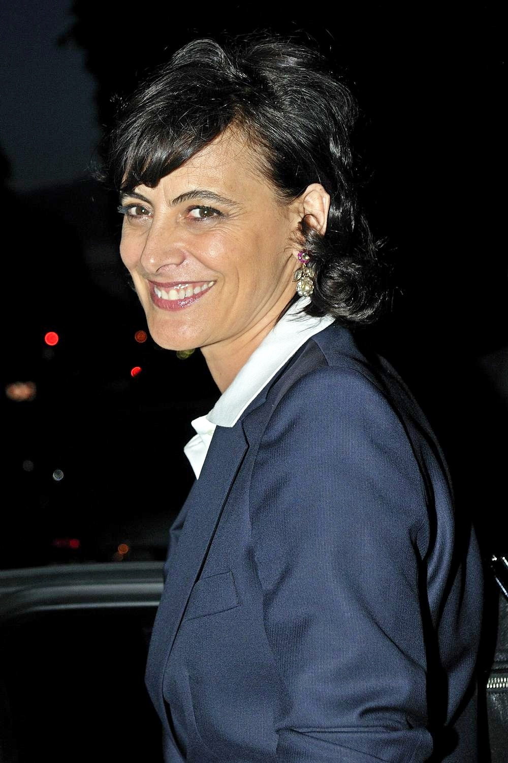 French fashion designers and models Inès de la Fressange